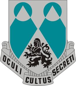 2nd Military Intelligence Battalion distinctive unit insignia